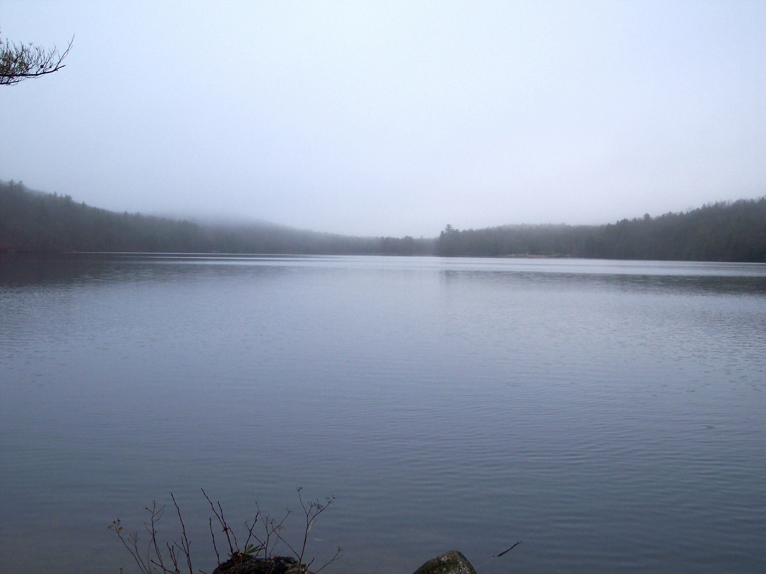 Browning Pond In North Spencer with typical morning fog.